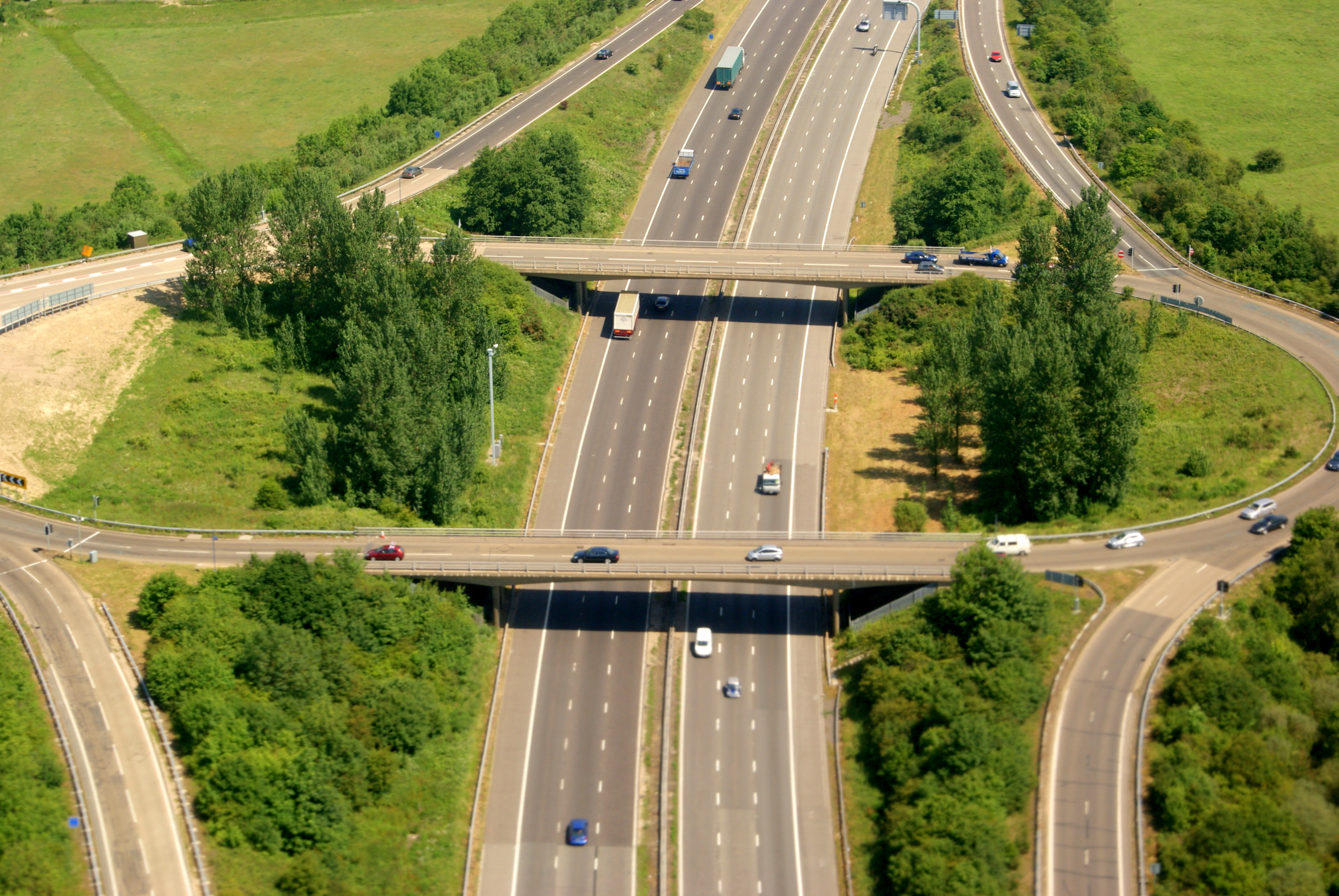 Junction 9 of the M23 motorway in England. Taken from an incoming flight to Gatwick airport.